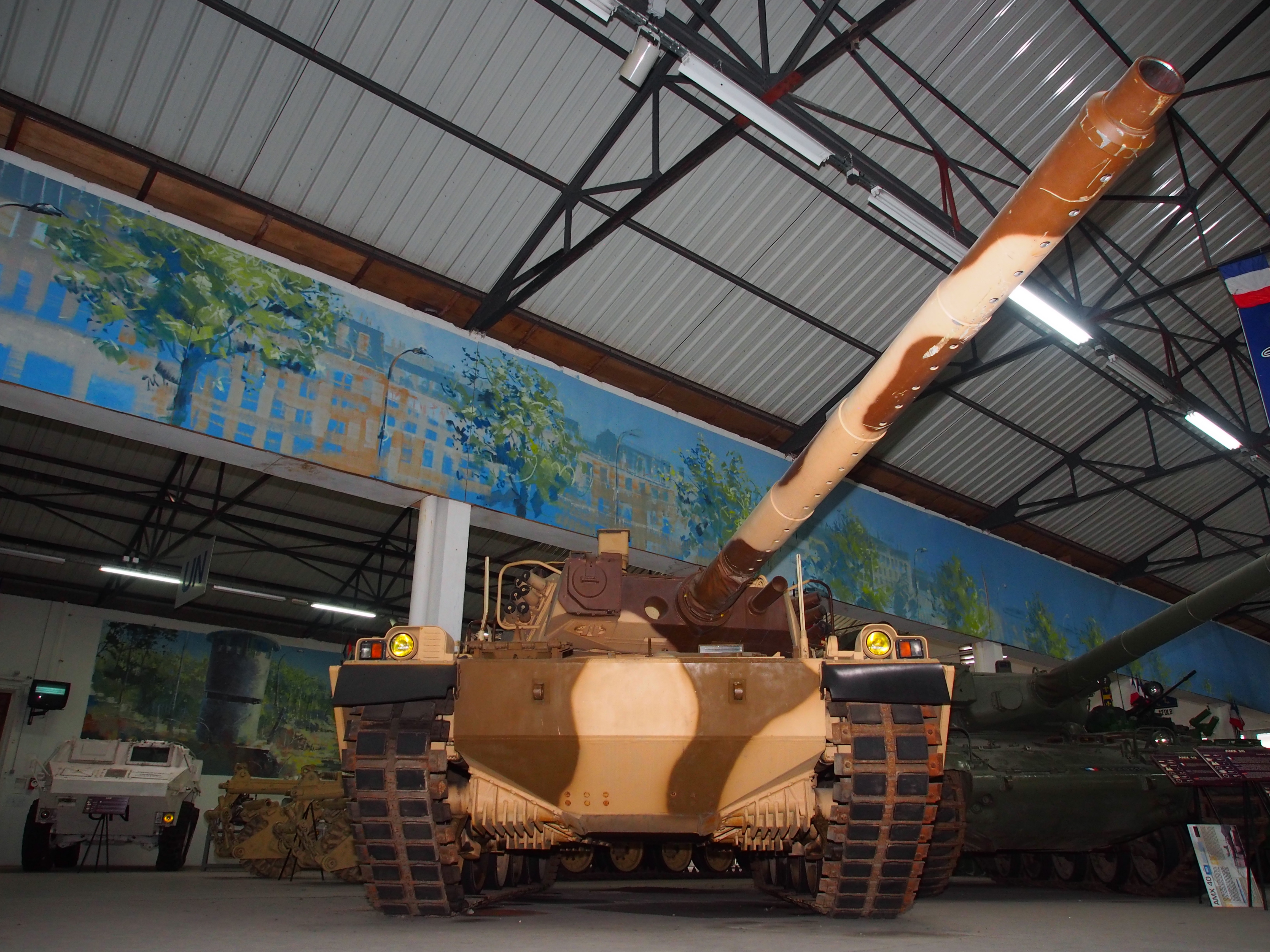 Photographed in the Musée des Blindés, France.